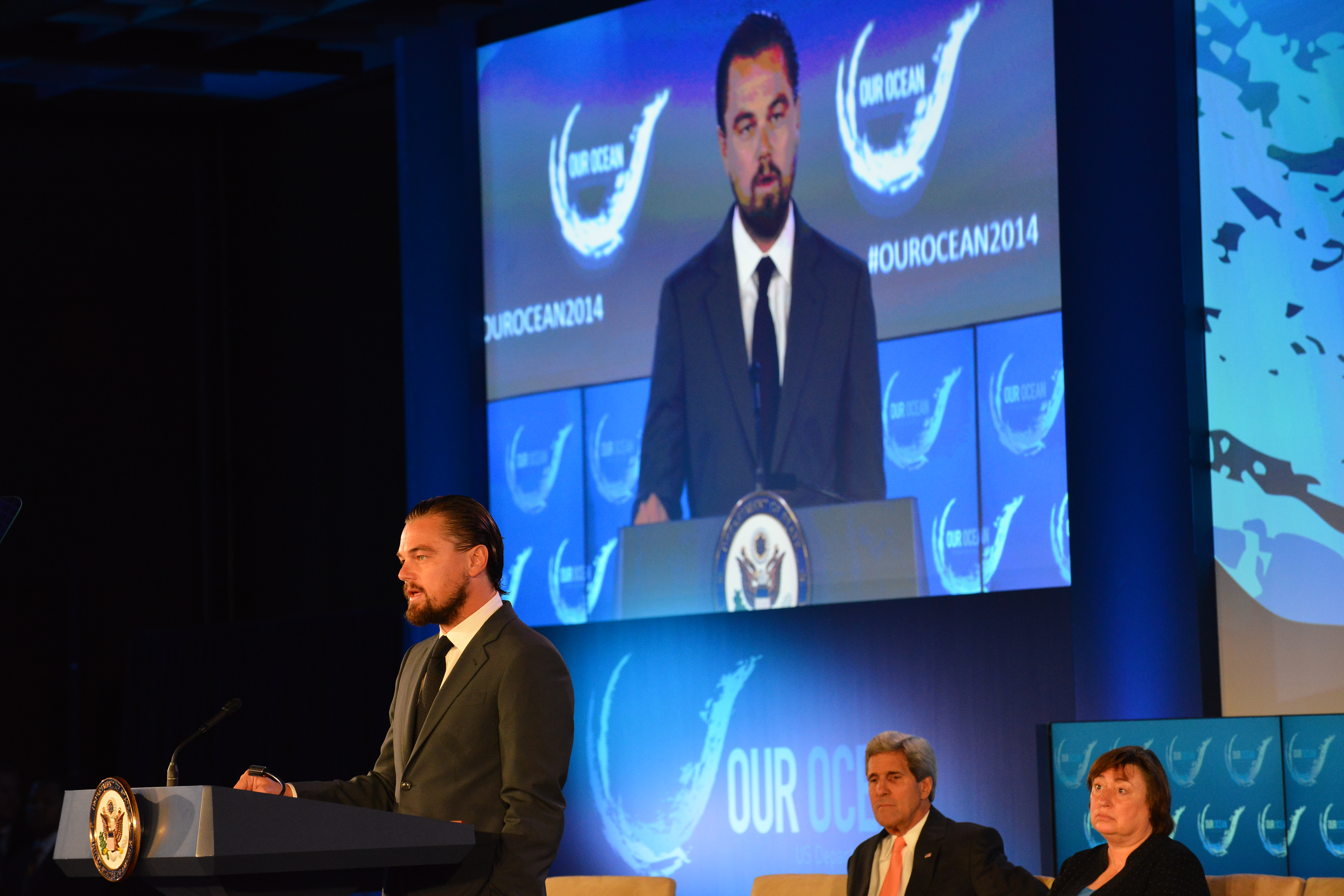 Leonardo DiCaprio delivers remarks at the 2014 "Our Ocean" Conference at the U.S. Department of State in Washington, D.C. on June 17, 2014. [State Department photo/ Public Domain]